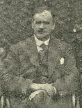 John Beard in 1922, while at a meeting of the executive of the Workers' Union